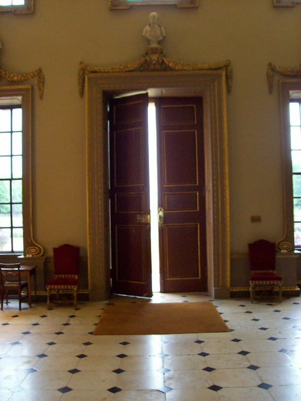 Main door from inside of Ditchley Park, near Charlbury, Oxfordshire, UK.